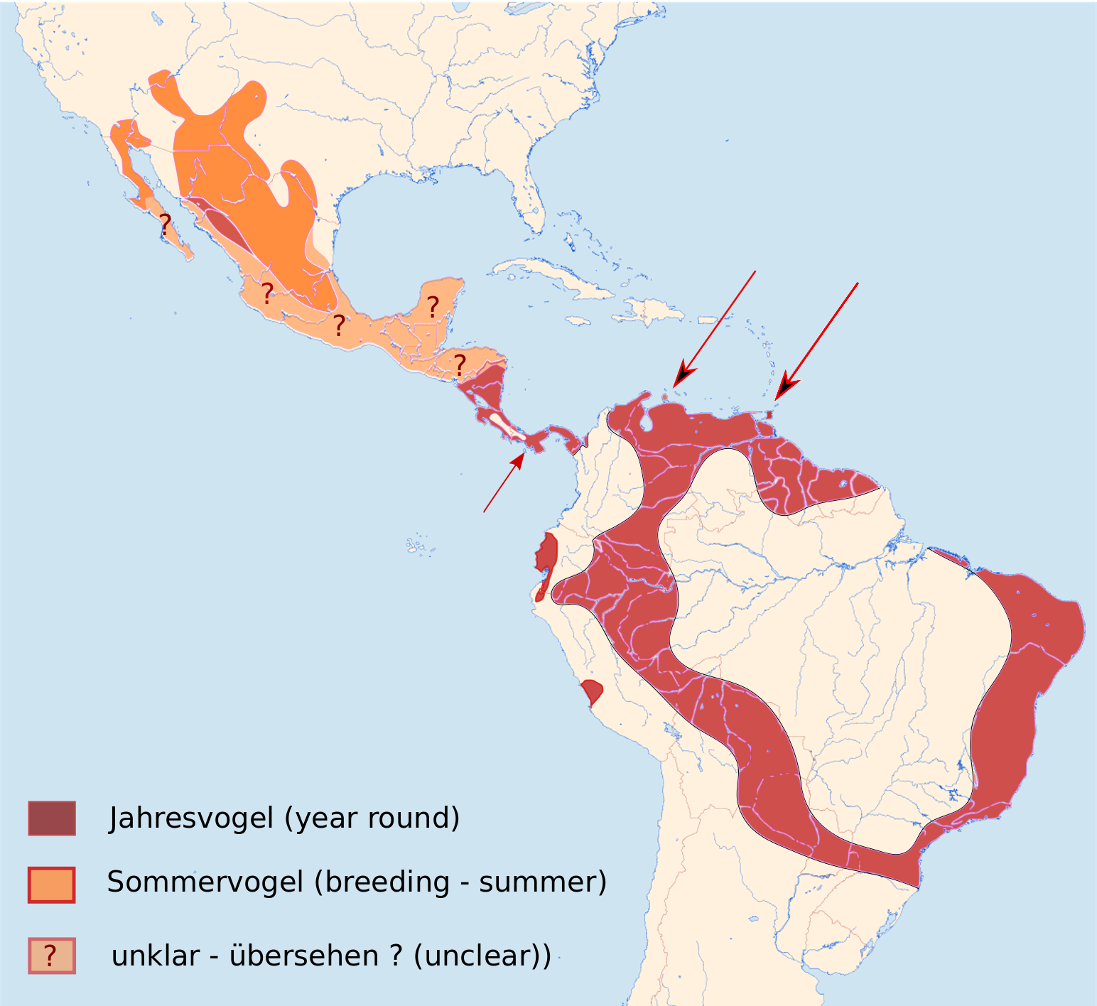 Buteo albonotatus - Distribution map